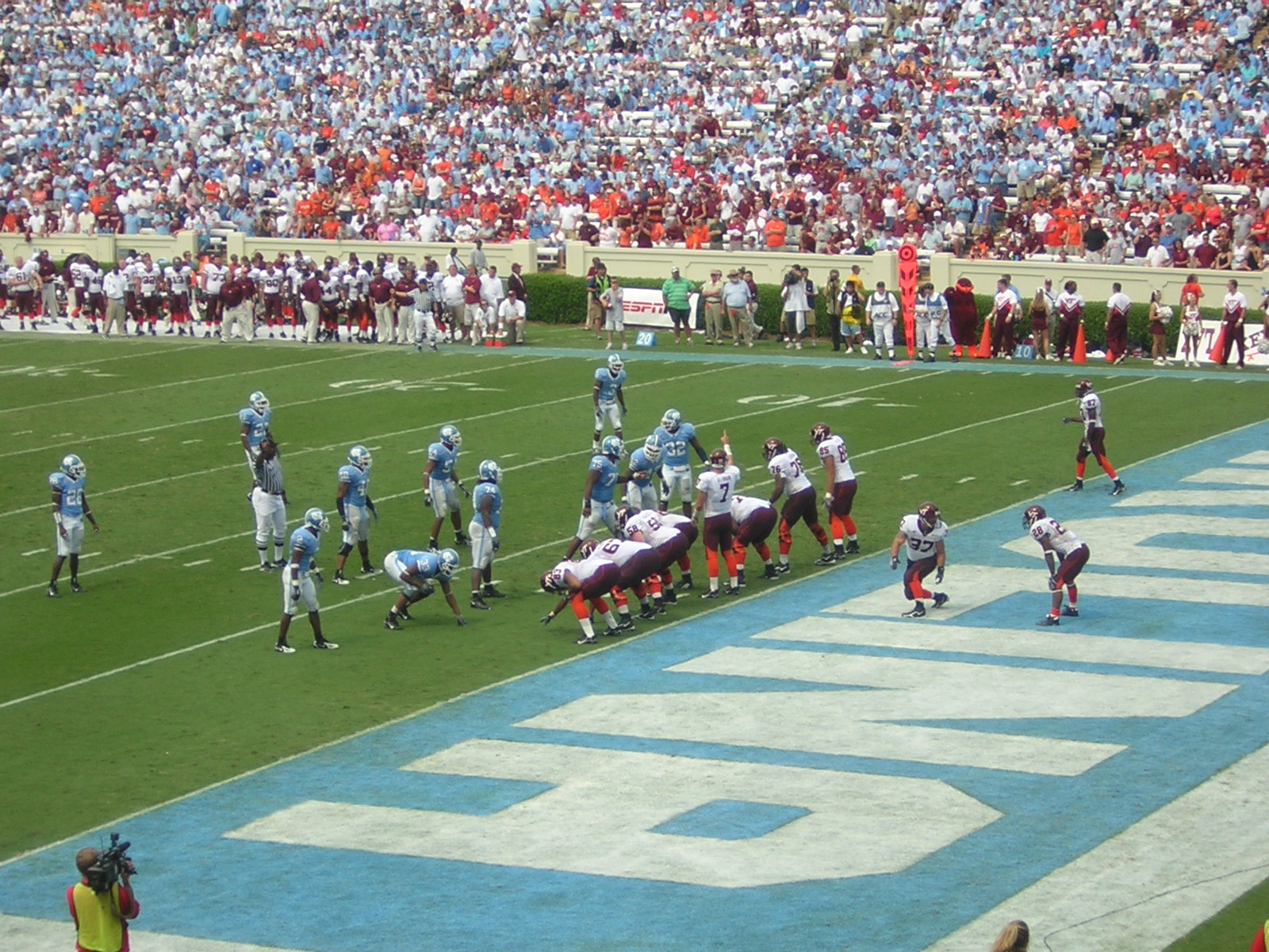 The 2006 Virginia Tech Hokies take on the North Carolina at Kenan Stadium. Sean Glennon is the quarterback and Brandon Ore is the tailback for the Hokies. David Clowney is the receiver at the right of the formation.